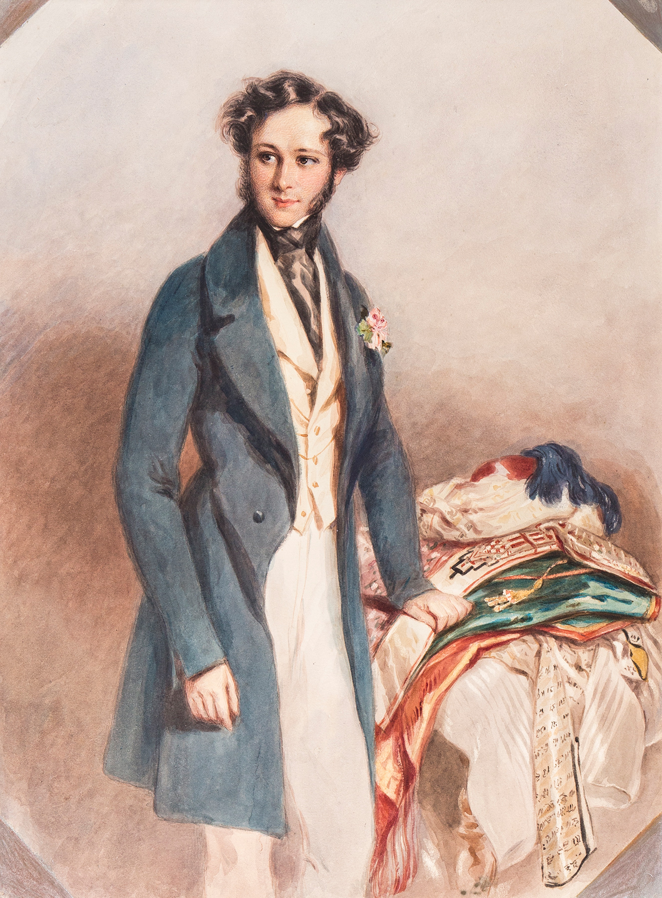 Offered for sale by Abbott and Holder in February 2020 when it was described as "‘Sir William Geary 3rd Bt. (1810-1877) M.P. for Kent in 1832. Watercolour. Exhibited: Agnews (No.46385). 17.25x12.75 inches. 17.25x13 inches (shaped)"